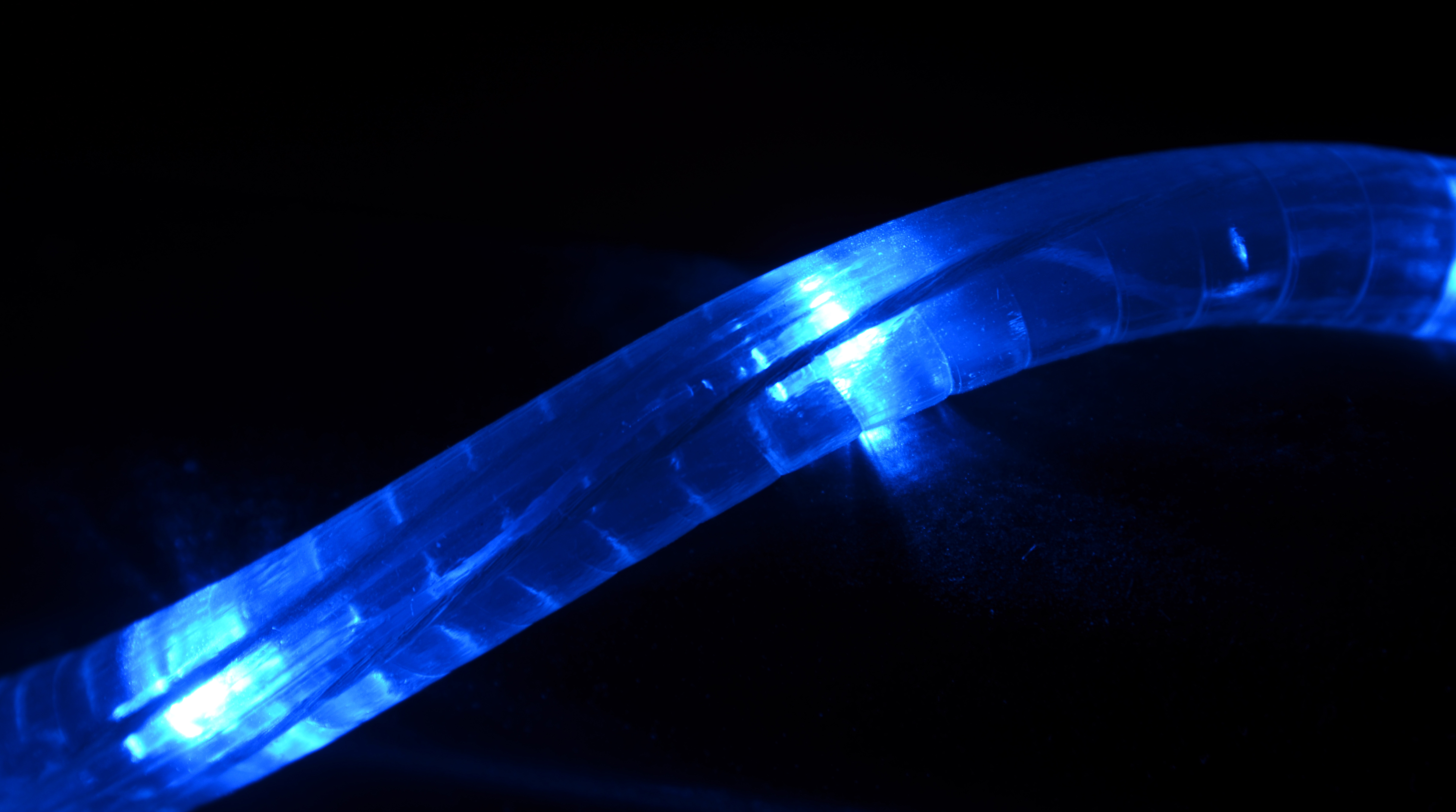 A close-up view of LED string lights